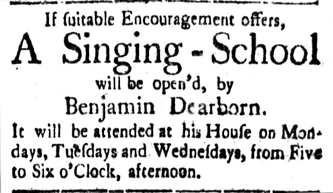 Notice for singing-school, April 5, 1783; Benjamin Dearborn.